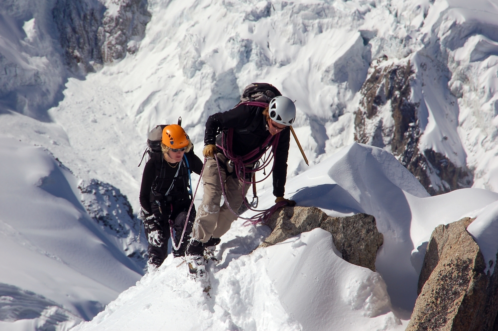 Hiking, Aiguille du Midi, Haute-Savoie, France